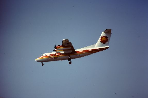 Manufacturer: de Havilland Canada Designation: DHC-7 Dash 7 Airline: Golden West Serial Number: N702GW